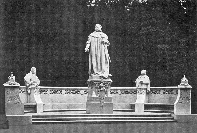 Monument group No. 17 in the former Siegesallee in Berlin. The central monument commemorates Albert Achilles, Elector of Brandenburg. The bust on the left commemorates Hofmeister Werner von der Schulenburg († 1515); the bust on the right treasurer and chronicler Ludwig von Eyb (1417–1502). Sculptor: Otto Lessing, unveiled 28 August 1900.